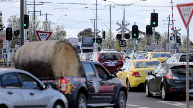 Traffic at the intersection of Old Geelong Road and the Princes Highway in Hoppers Crossing.